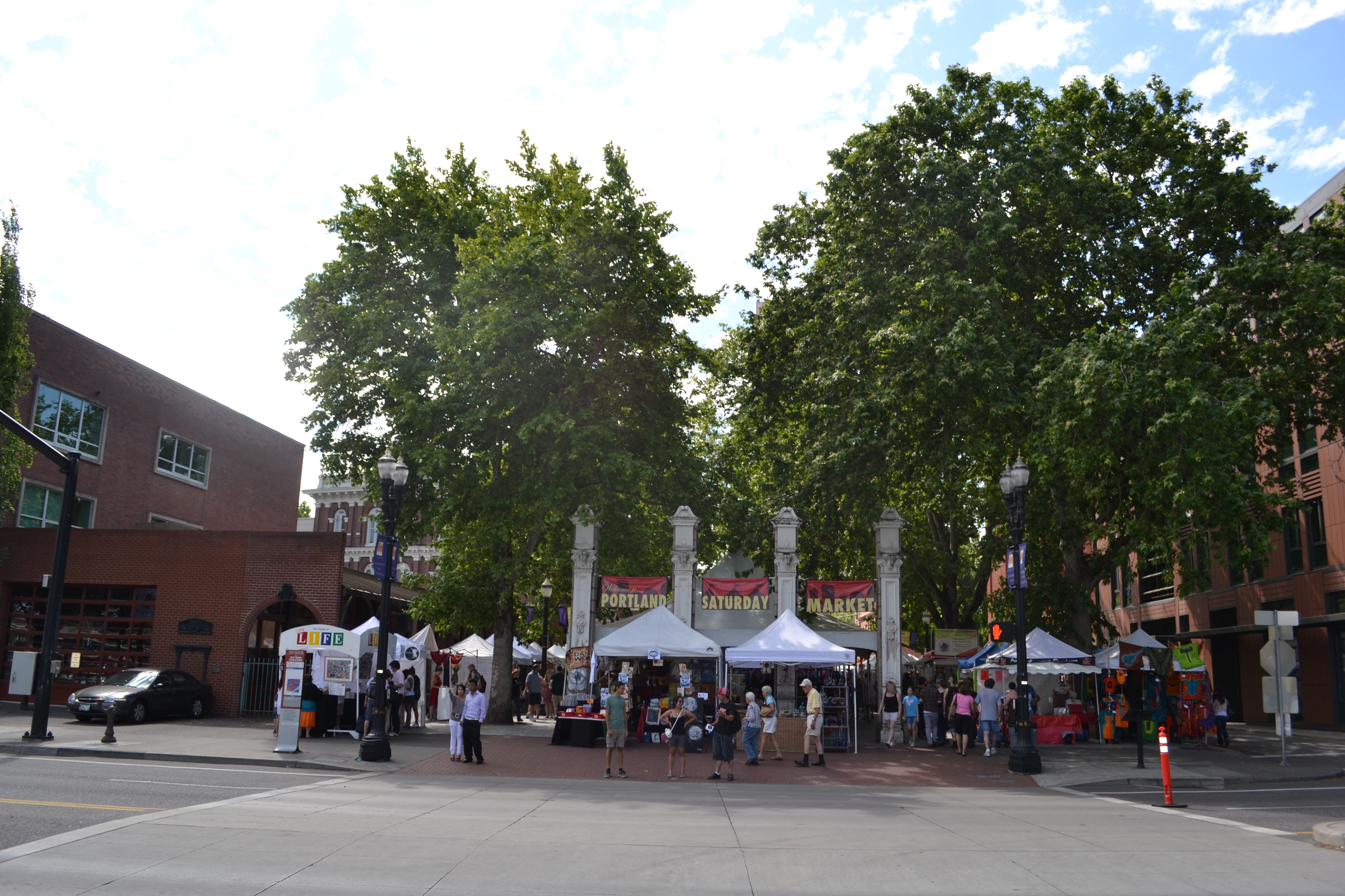 The Portland Saturday Market, seen from across SW Naito Parkway, looking west. This was the market's location (west of Naito Parkway) through 2008, but in 2009 it expanded and now also occupies space on the east side of Naito Pkwy. (behind the photographer), in Waterfront Park.